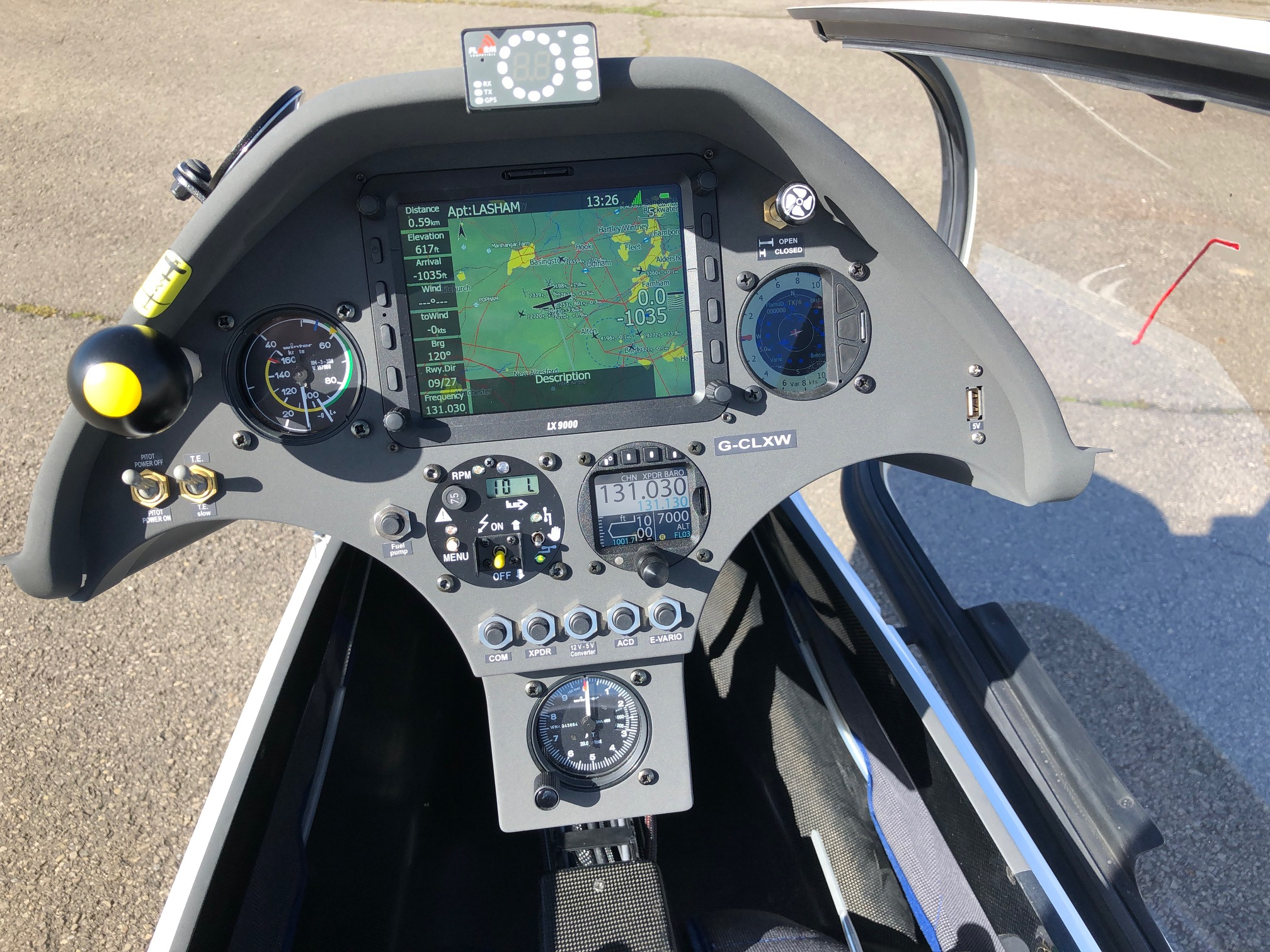 The panel lifts to allow the pilot to enter and leave. On the top is the anti-collision indicator (Flarm), to its left and folded back is the mirror to view the engine behind the pilot. The large screen is the navigational computer. On its left is the airspeed indicator,and on its right is the ventilator control and the electronic vertical speed indicator (variometer). Extreme left is the release knob for the towing cable (with yellow dot), and below are the pneumatic switches to change the ports for the Pitot tube and total energy probe when the engine is running. Below the screen are the engine controls and a combined radio/transponder/altimeter. On the extreme right is a 5 volt USB power source. Below the bank of circuit breakers is a mechanical altimeter.